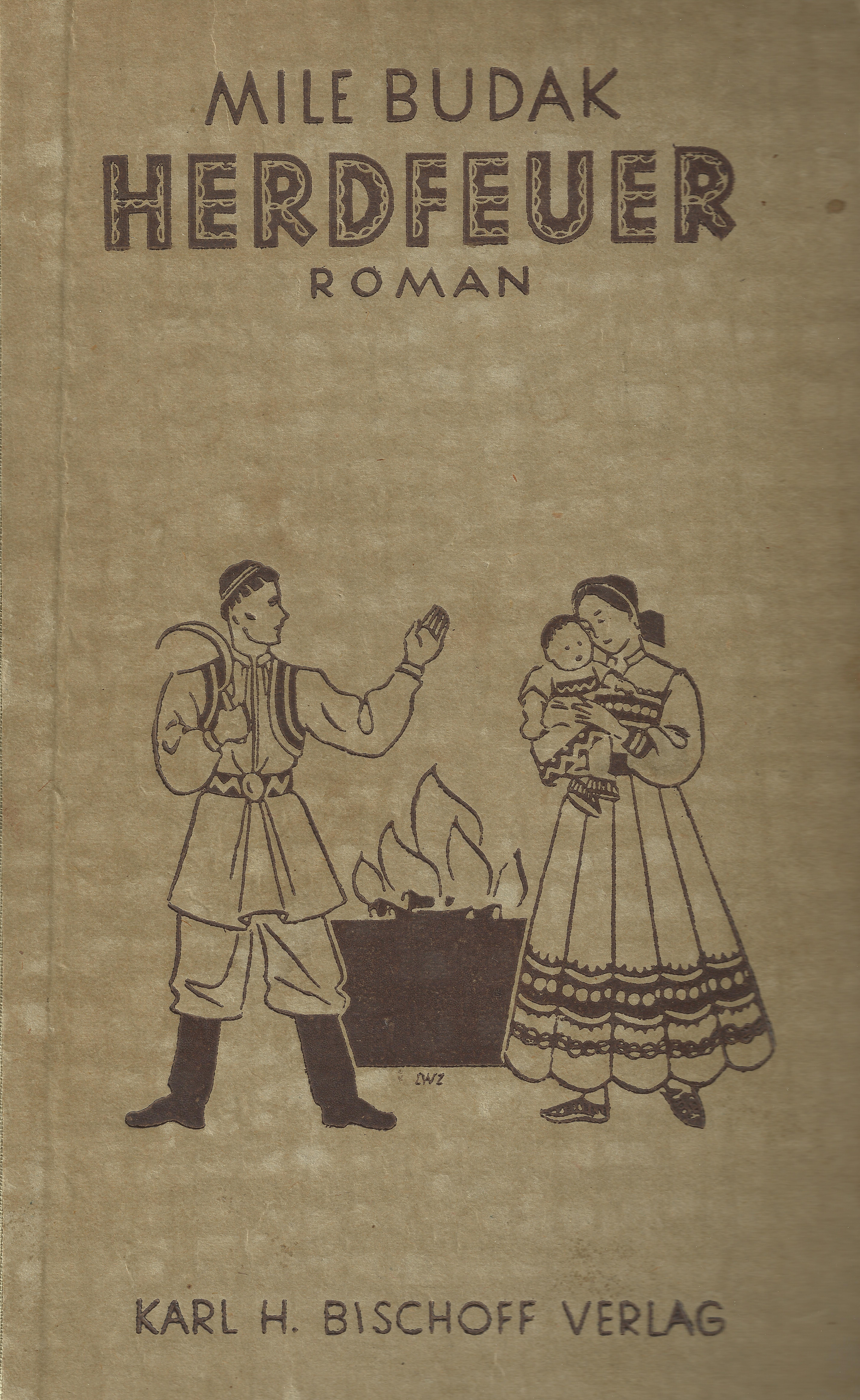 Titel Einband